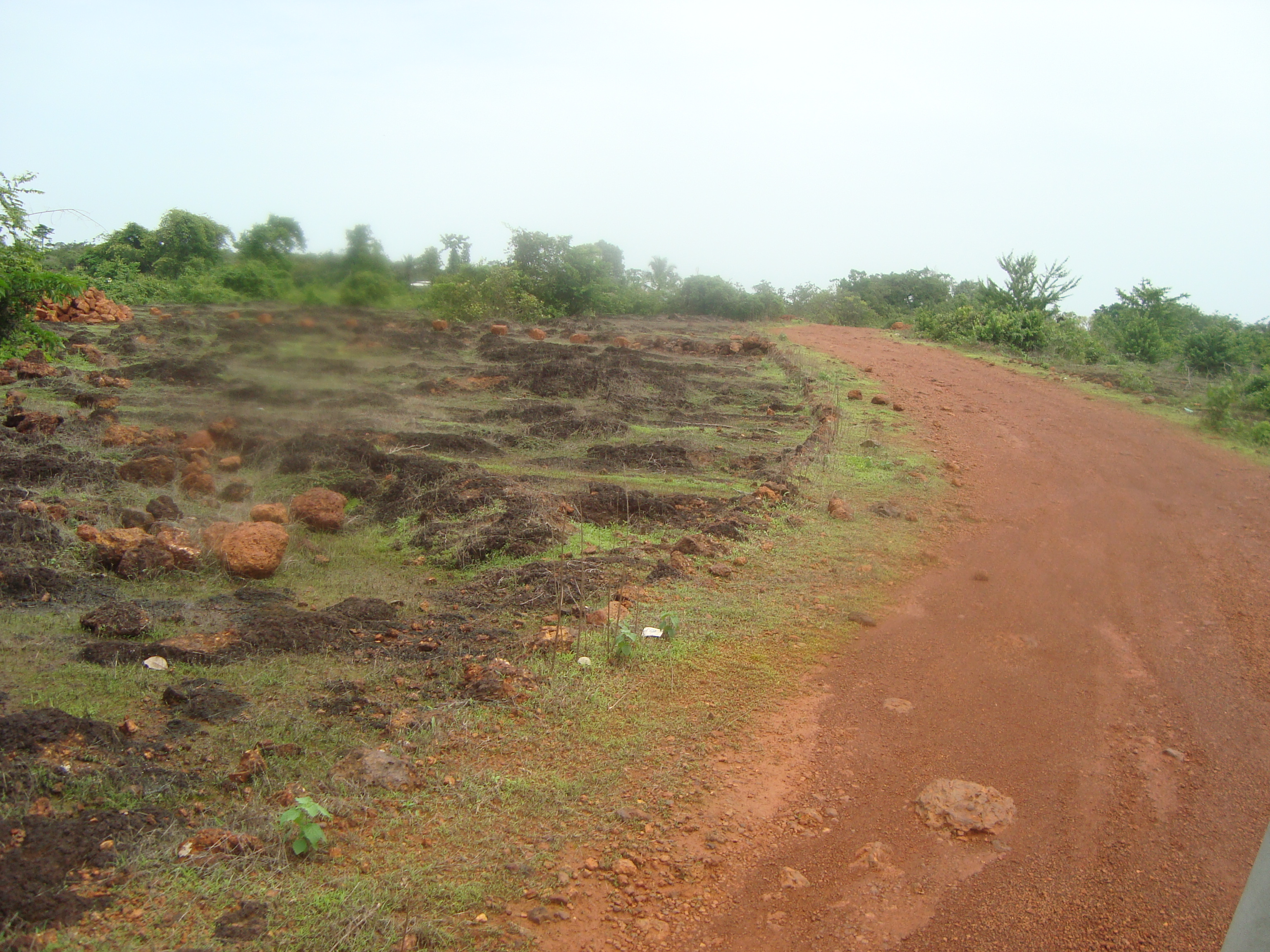 A laterite rich area